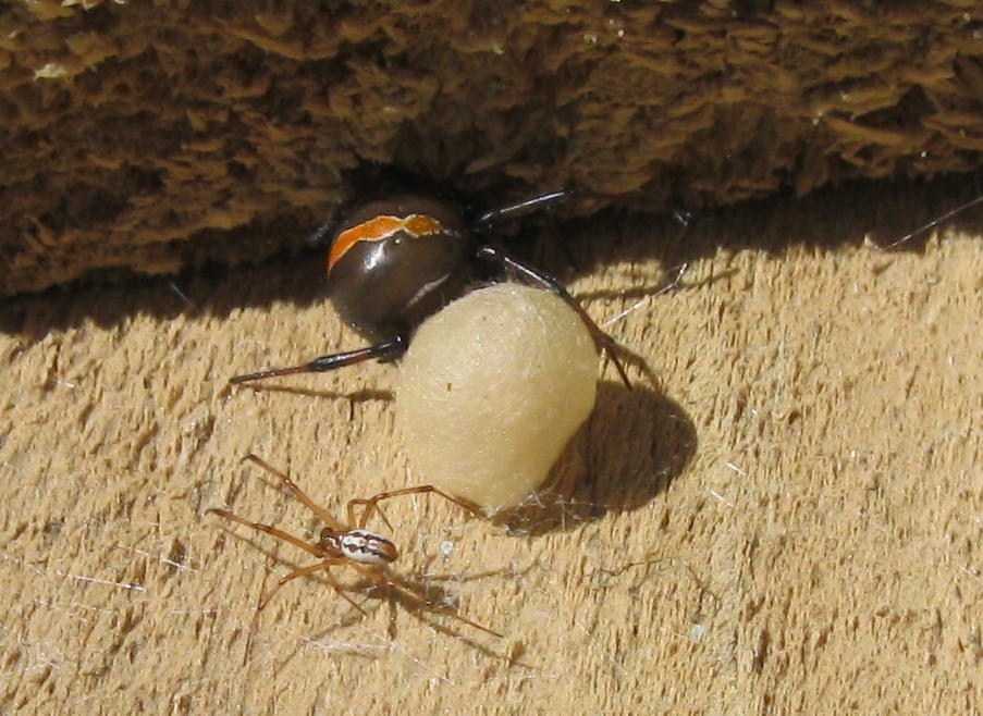 female and male katipo with one egg sac